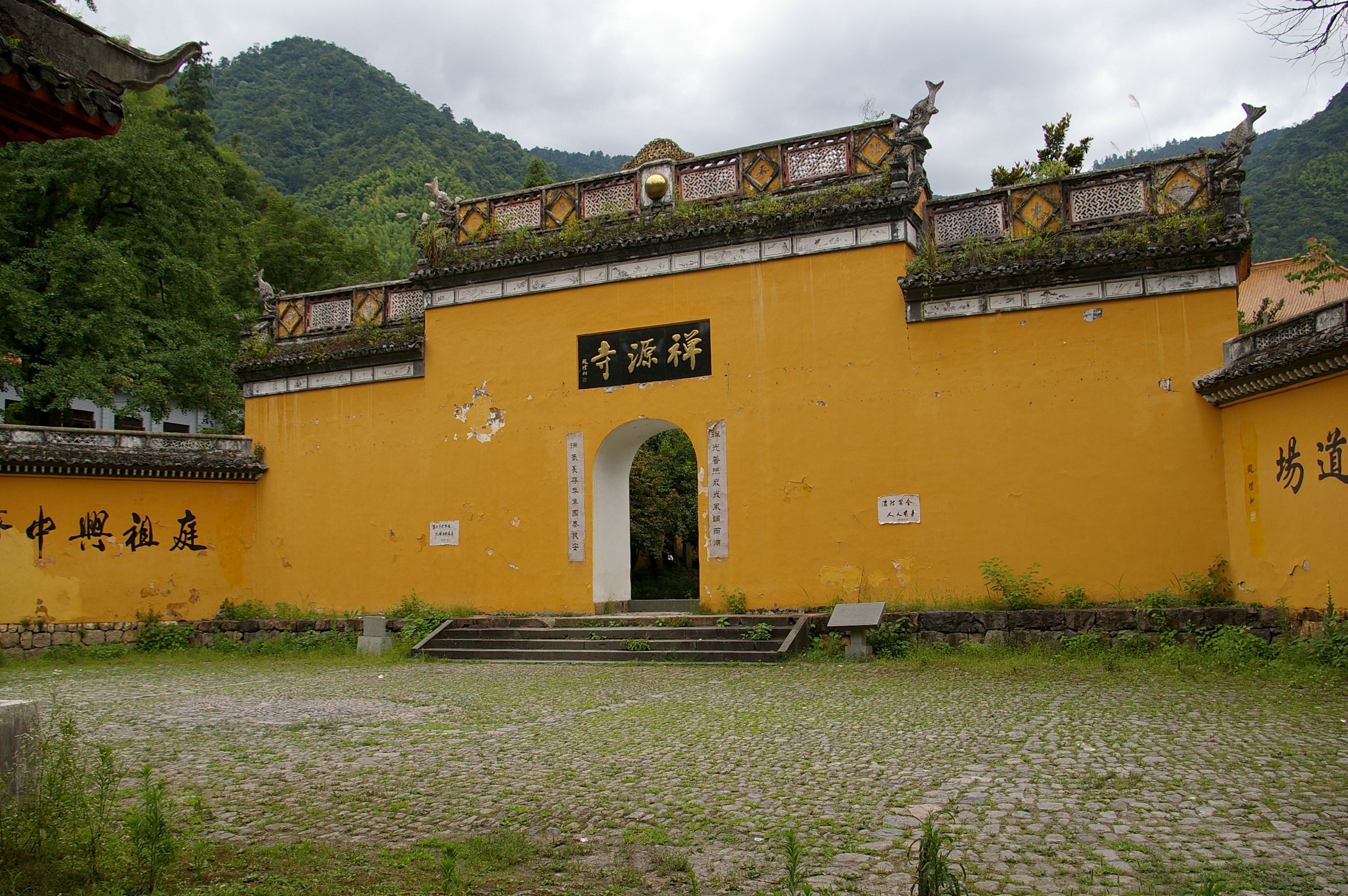 Mount Tianmu Park